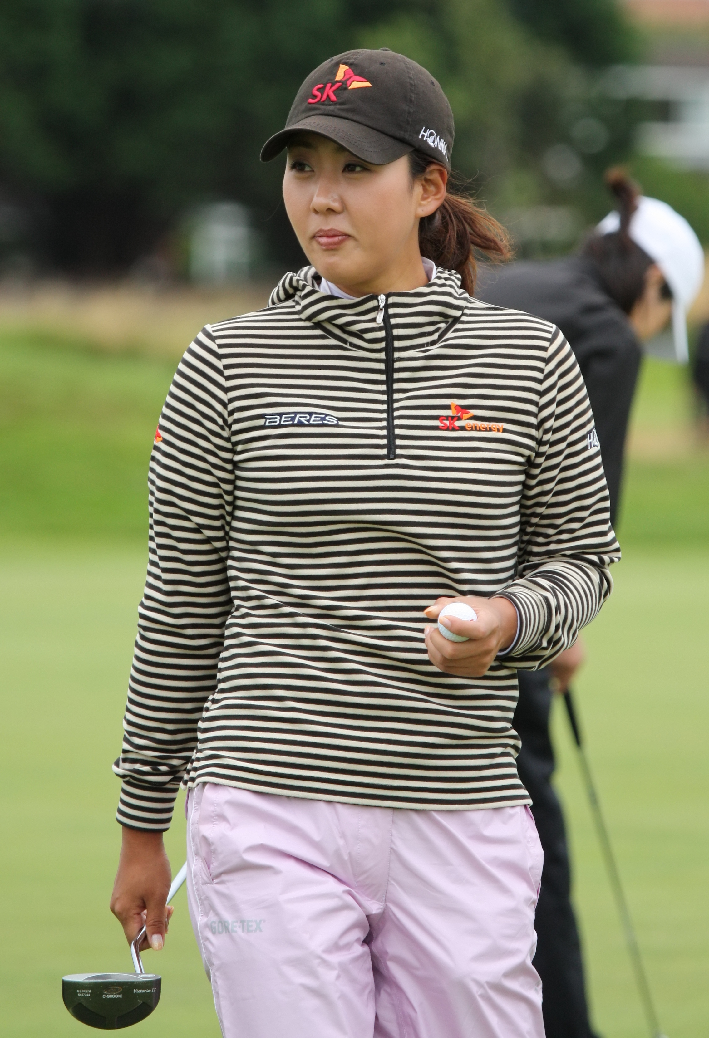 LYTHAM ST ANNES, UNITED KINGDOM - JULY 29: Jin Joo Hong of South Korea on the 4th green during third practice round before 2009 Ricoh Women's British Open held at Royal Lytham & St Annes on July 29, 2009 in Lytham St Annes, England. (Photo by Wojciech Migda)